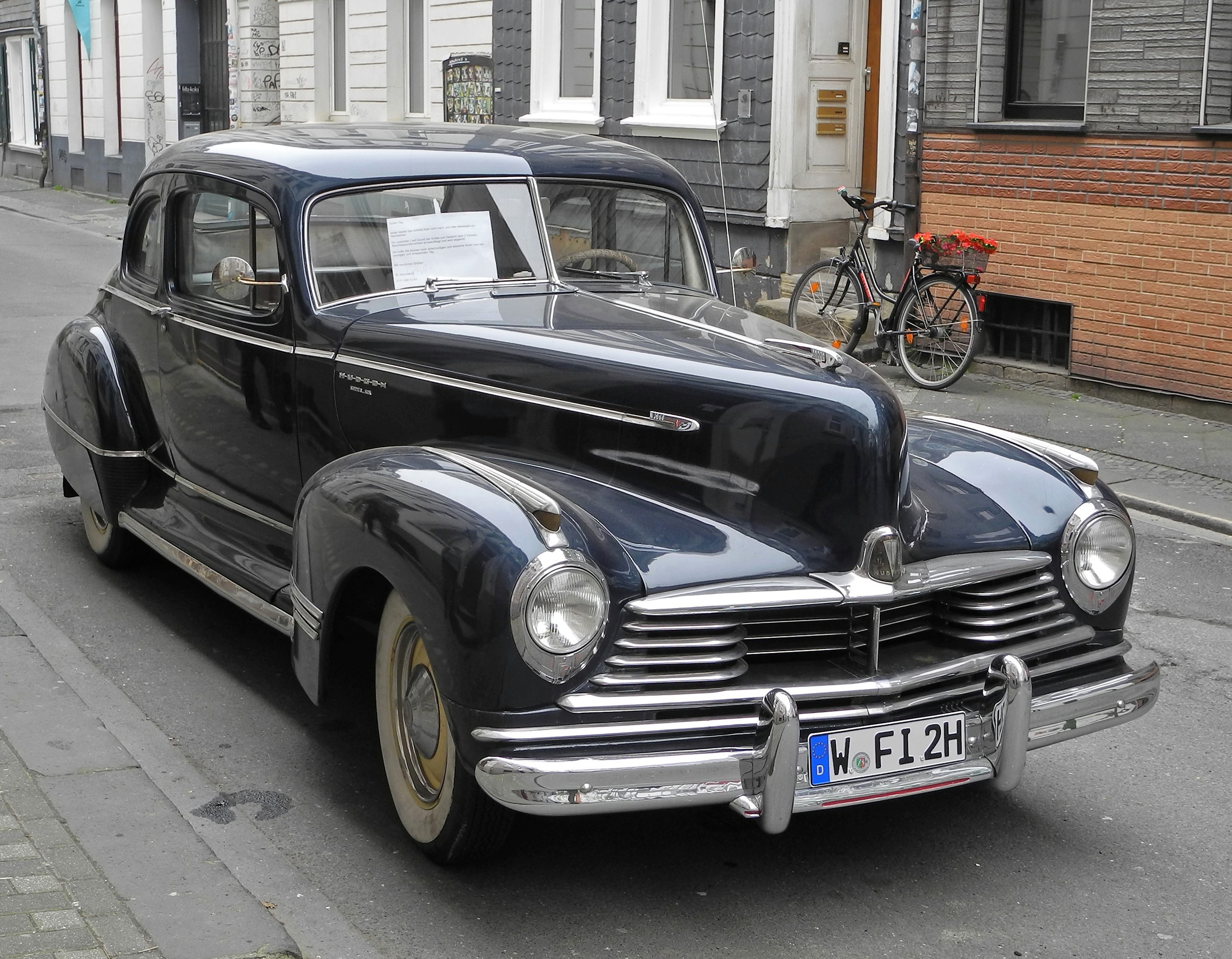 Hudson Super Six Coupe, built between 1948 and 1950 (covered rear wheels), parked in Obergruenewalder Strasse, an old vehicle in a street with old houses near the middle of the city of Wuppertal (360.000 inhabitants), Germany